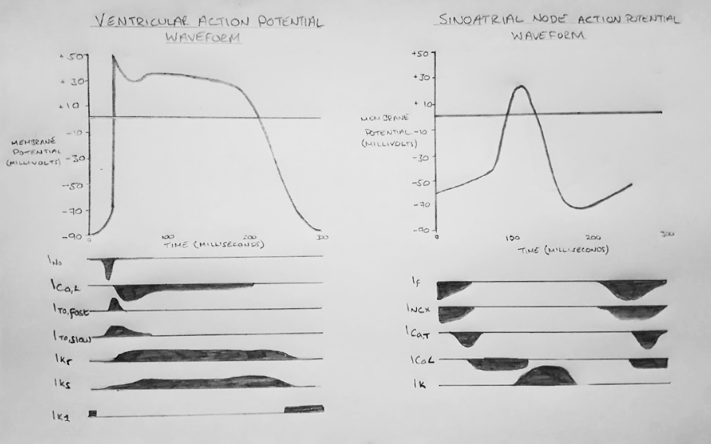 Cardiac action potentials (ventricular myocyte and sino atrial node) with ion channels